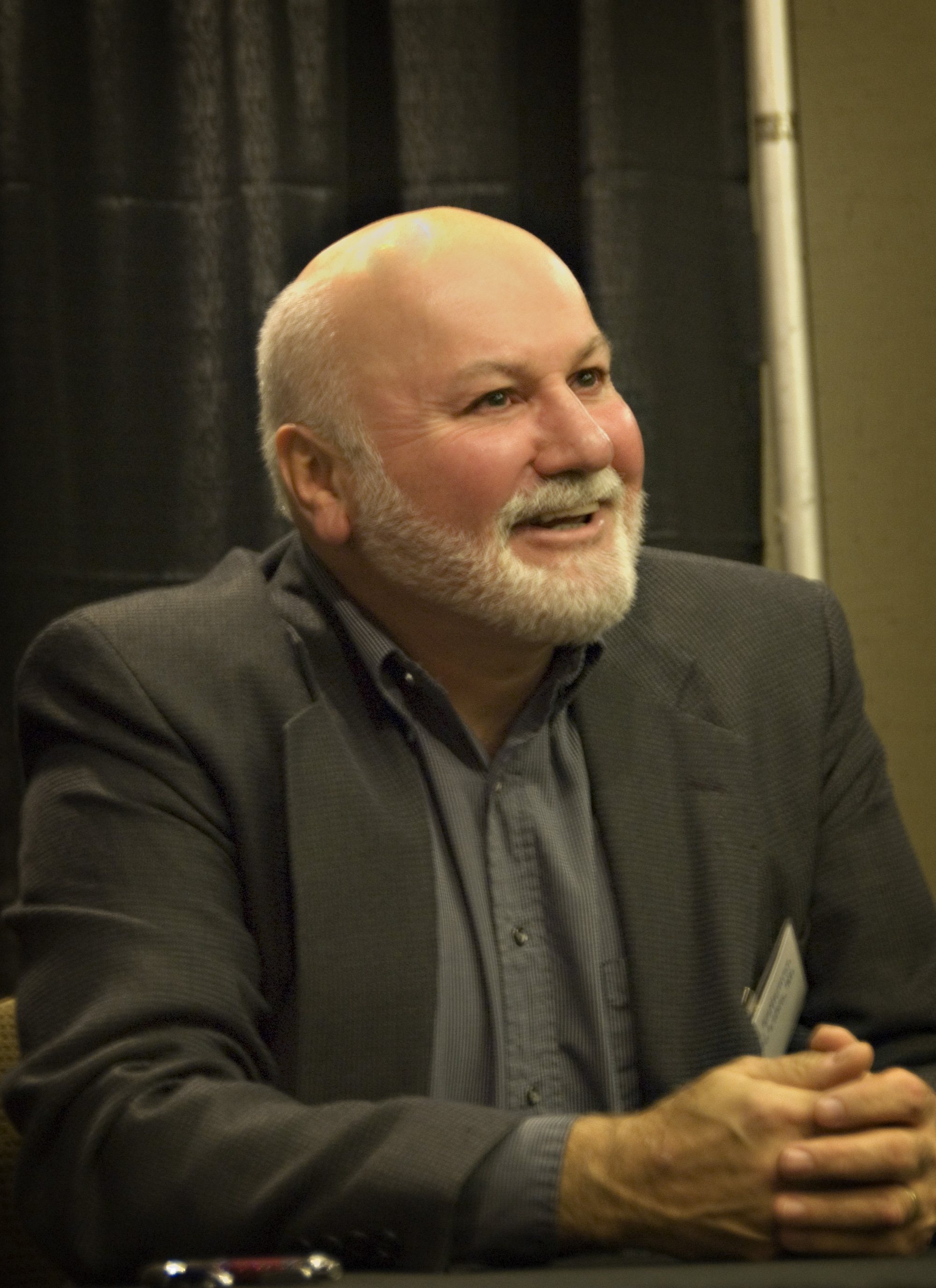 Loren D. Estleman signing at the 2009 Bouchercon in Indianapolis, Indiana.